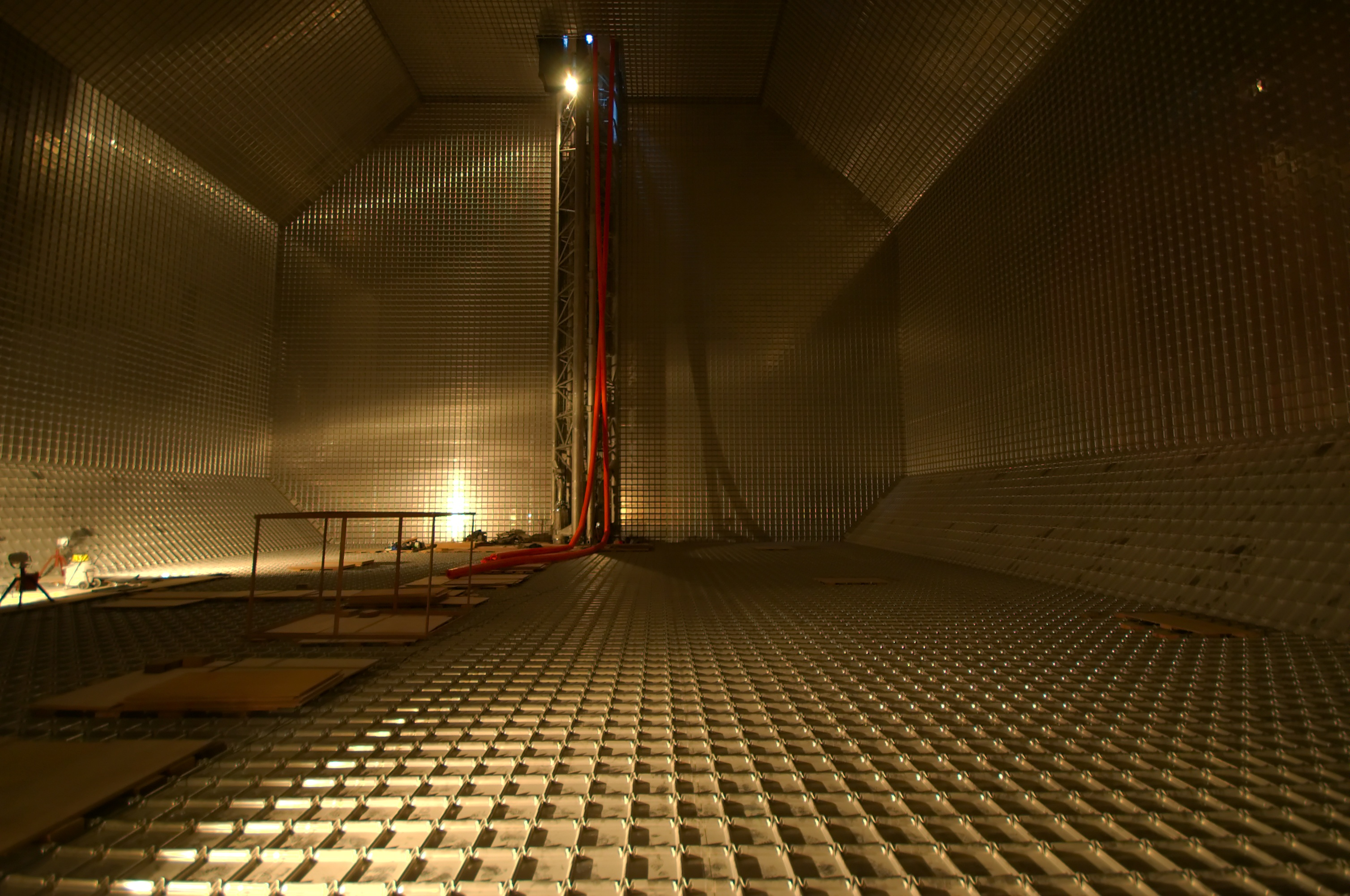 Technigaz Mark III type LNG membrane inside an LNG carrier. Photograph taken during routine inspection in a docking period also shows the pump tower in the back side of the tank. The waffle/grid corrugations allow the 304L stainless steel tank liner to safely accommodate thermal expansion/contraction during the loading/unloading of cryogenic, liquified gas.[1][2] ↑ GTT Mark III Technology. Gaztransport & Technigaz (GTT) (Nov 7, 2013). ↑ Mark III System. Gaztransport & Technigaz (GTT) (2013). Archived from the original on 2014-12-29.